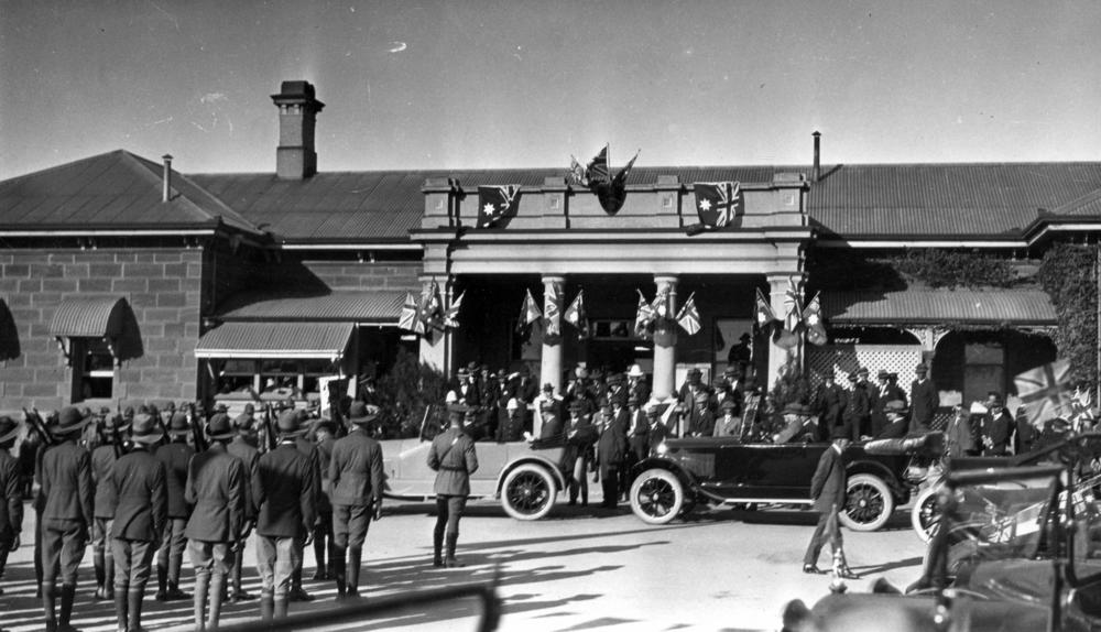 Warwick Railway Station during the visit from His Royal Highness, Edward, Prince of Wales, 1920 Warwick Railway Station during the visit of the His Royal Highness, Edward, Prince of Wales, on 26 July 1920 . Prince Edward visited Warwick for about an hour, on Monday 26 July, 1920. He arrived at Warwick by train at 3pm, and was greeted by the Mayor, Alderman R. E. Gillam. A band played the National Anthem and the Prince was escorted through the main entrance of the railway station to where returned soldiers were drawn up in files. He passed here and there through the ranks, shook hands with one or two of the men and chatted for an instant before passing onto another. He then stepped into the waiting car and was driven down Grafton Street to the cheering of the people. The car took him to the Rotunda in Leslie Park where the Prince received a gift of painted views of Warwick. The Prince was then driven back to the railway station. The train moved off to the accompaniment of ringing cheers, with the Prince standing on the platform at the rear of the rail car. (Information taken from: The Warwick Daily News, 27 July 1920, p. 5.).